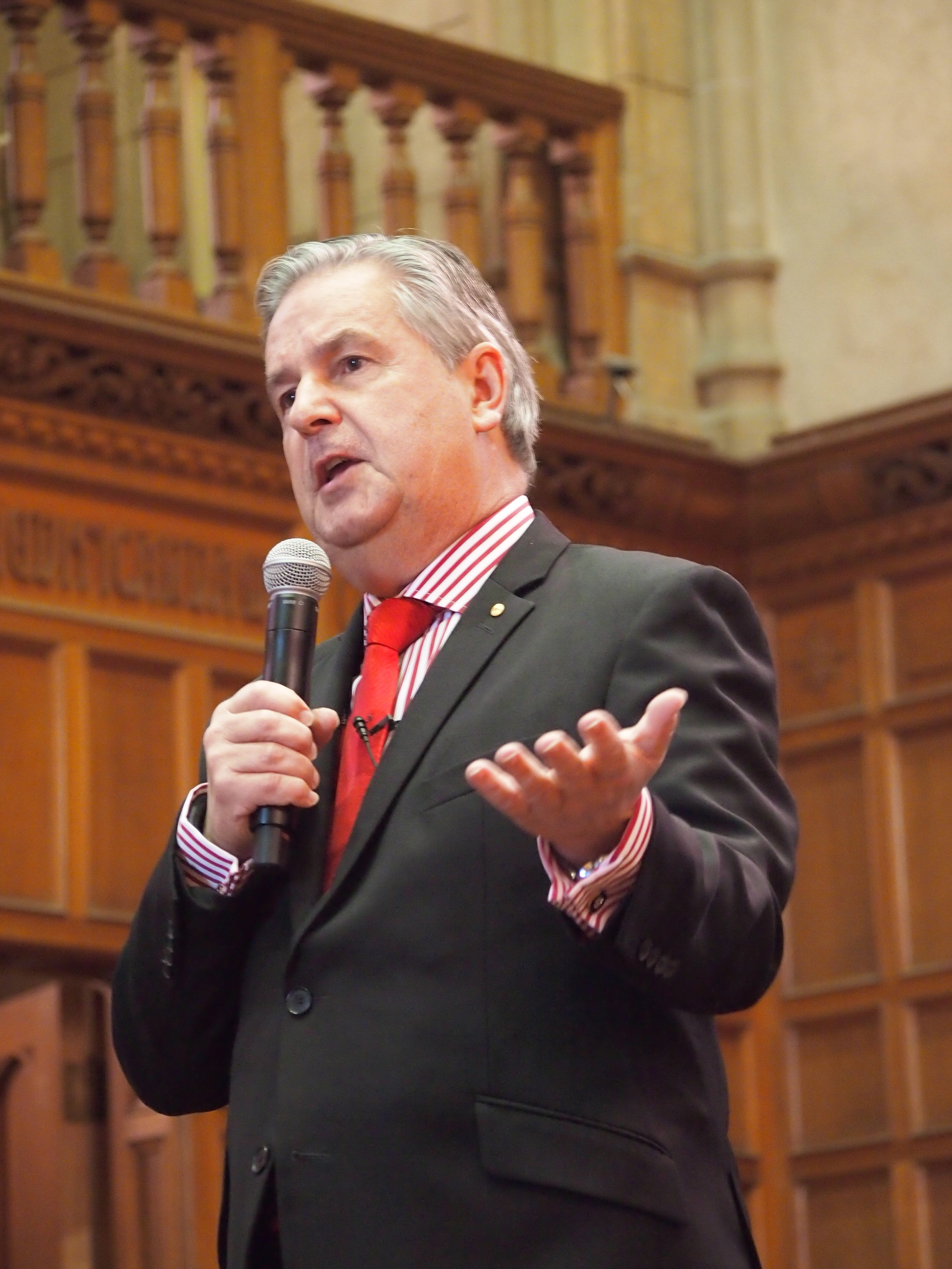 Rear Admiral the Honourable Kevin Scarce AC CSC RAN (Rtd) answering a question in relation to the Nuclear Fuel Cycle Royal Commission at a public forum held at Bonython Hall, University of Adelaide, 22 May 2015. Original filename = P5226012.JPG